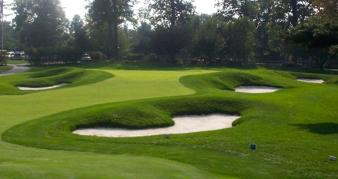 18th Green The Championship Course at Meadowlands Country Club, Blue Bell, Pennslyvania